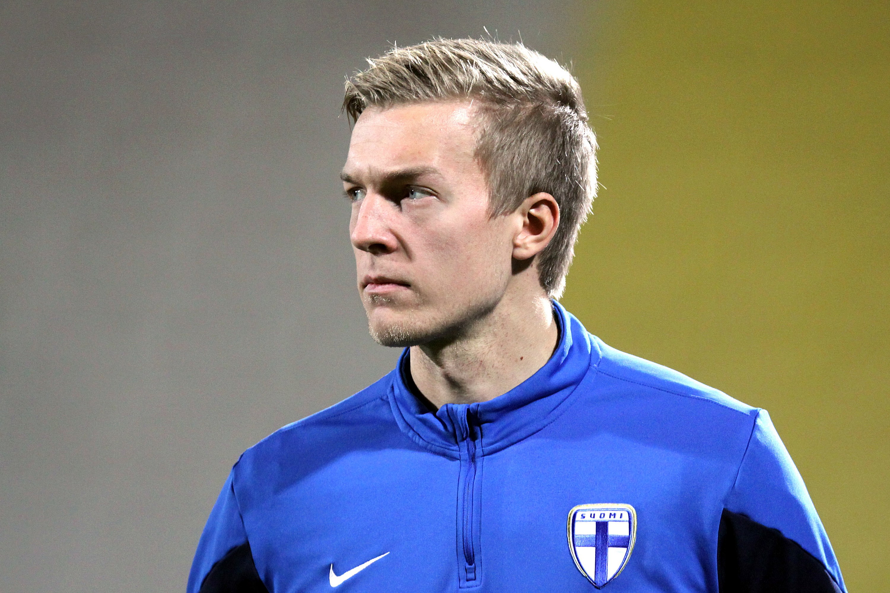 2017 UEFA European Under-21 Championship qualification – Austria U-21 (red shirts) vs. :en:Finland national under-21 football team |Finnland U-21 (blue shirts) 2-0 (0-0) – 2015-11-13 in Vienna, Austria Arena – The photo shows the goalkeeper of Finnland Otso Virtanen.